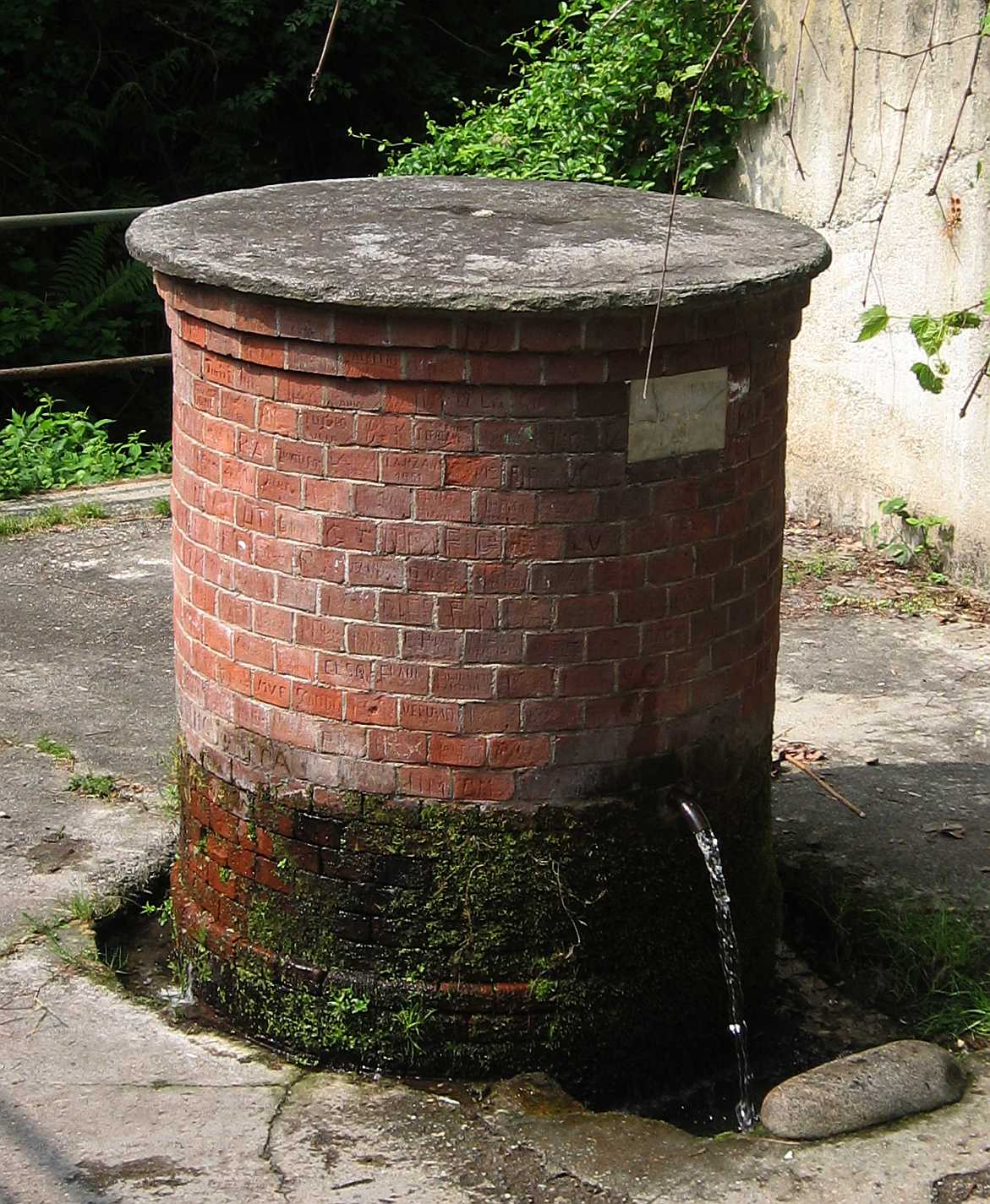 Soulfour spring near Zubiena (BI, Italy)